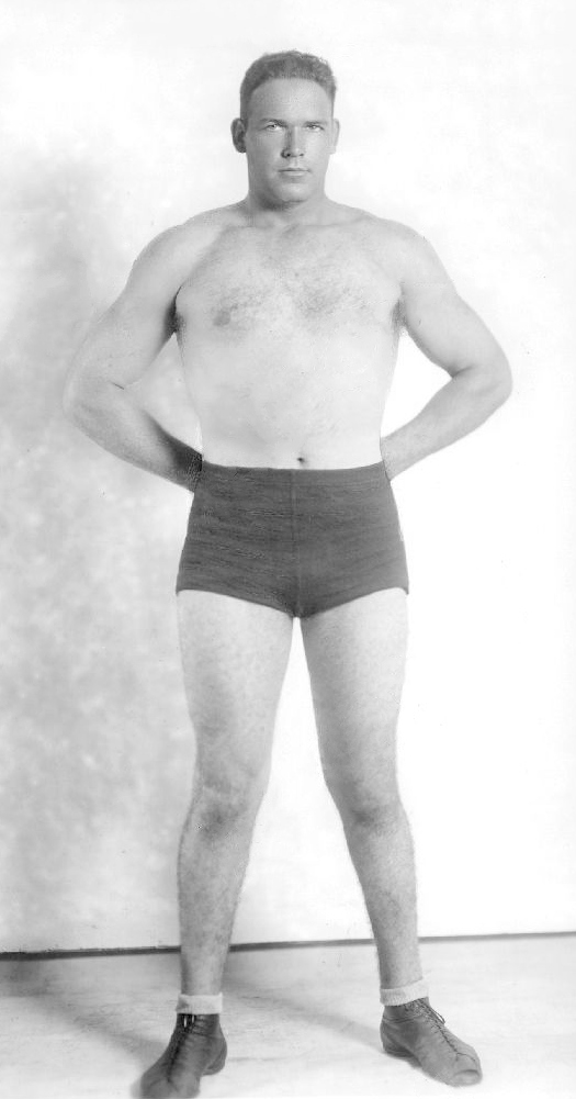 Boxer Wee Willie Davis Press Photo